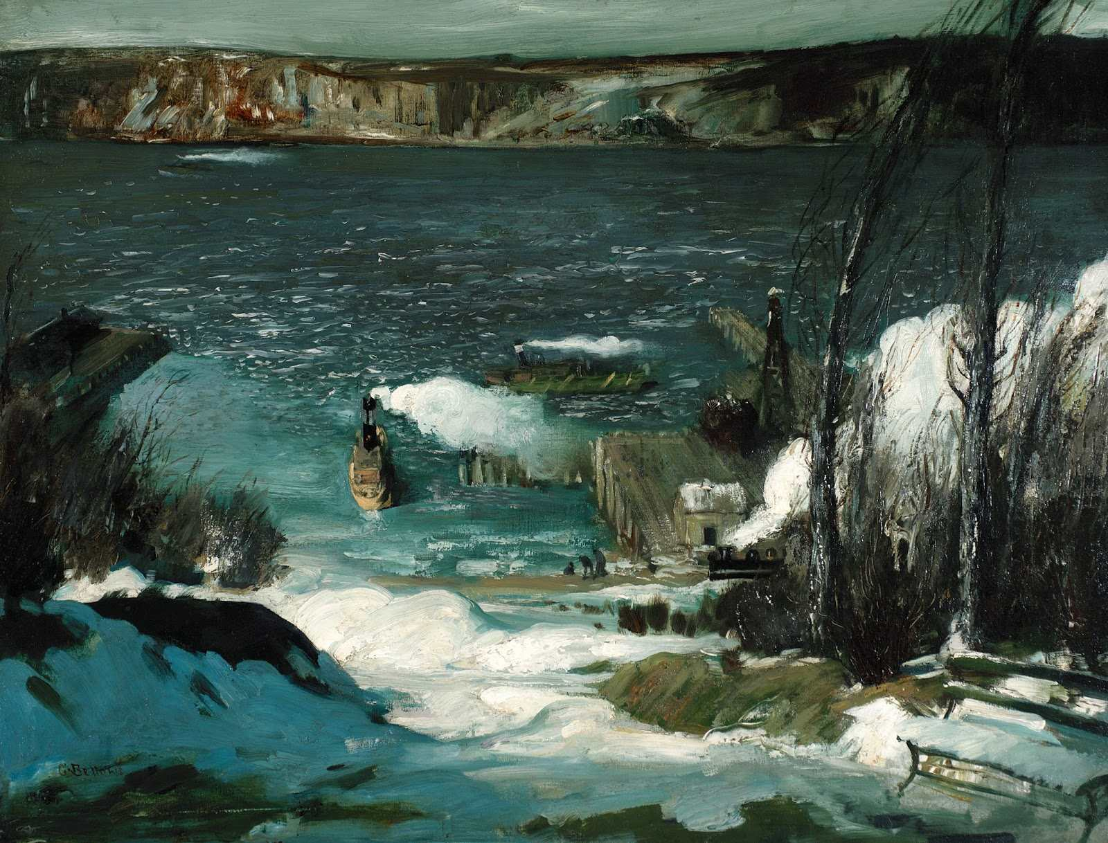 A scene along the Hudson River just above New York